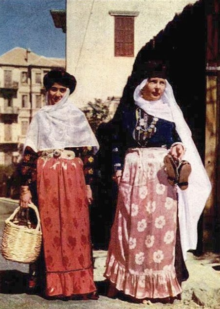 Kurdish Women in Beirut - 1970